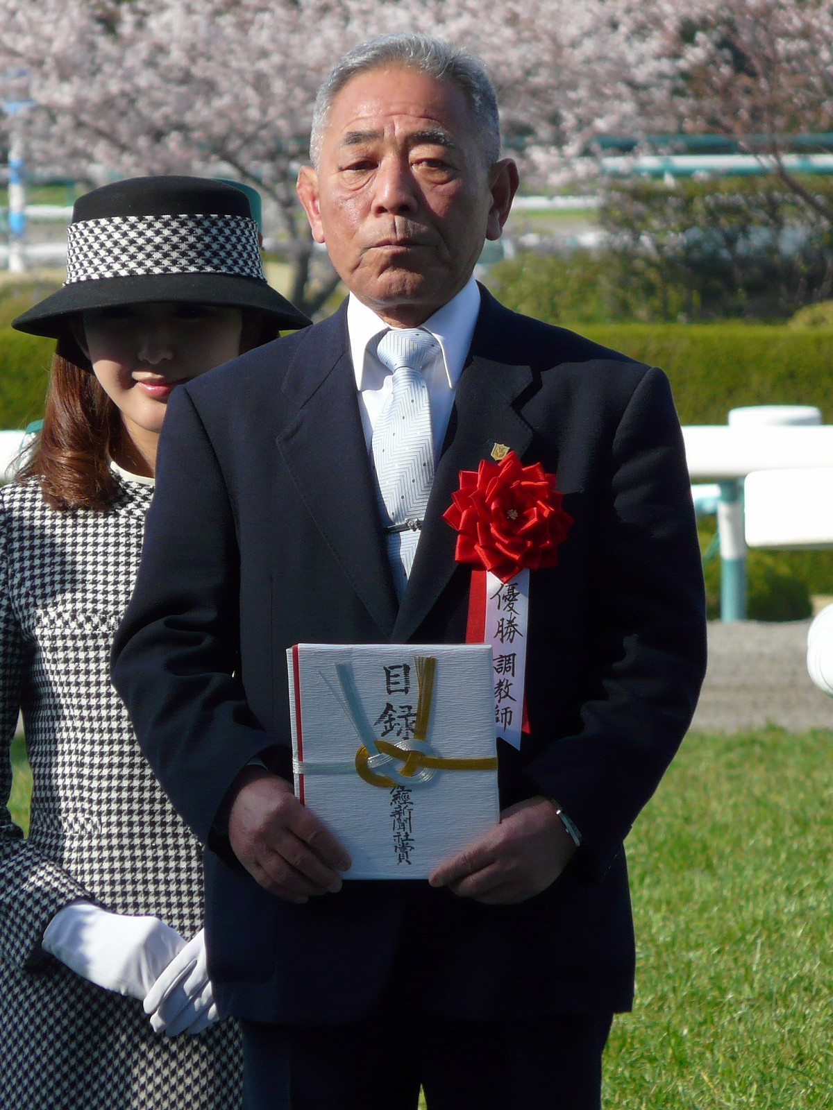 Masami-Shibata20100404